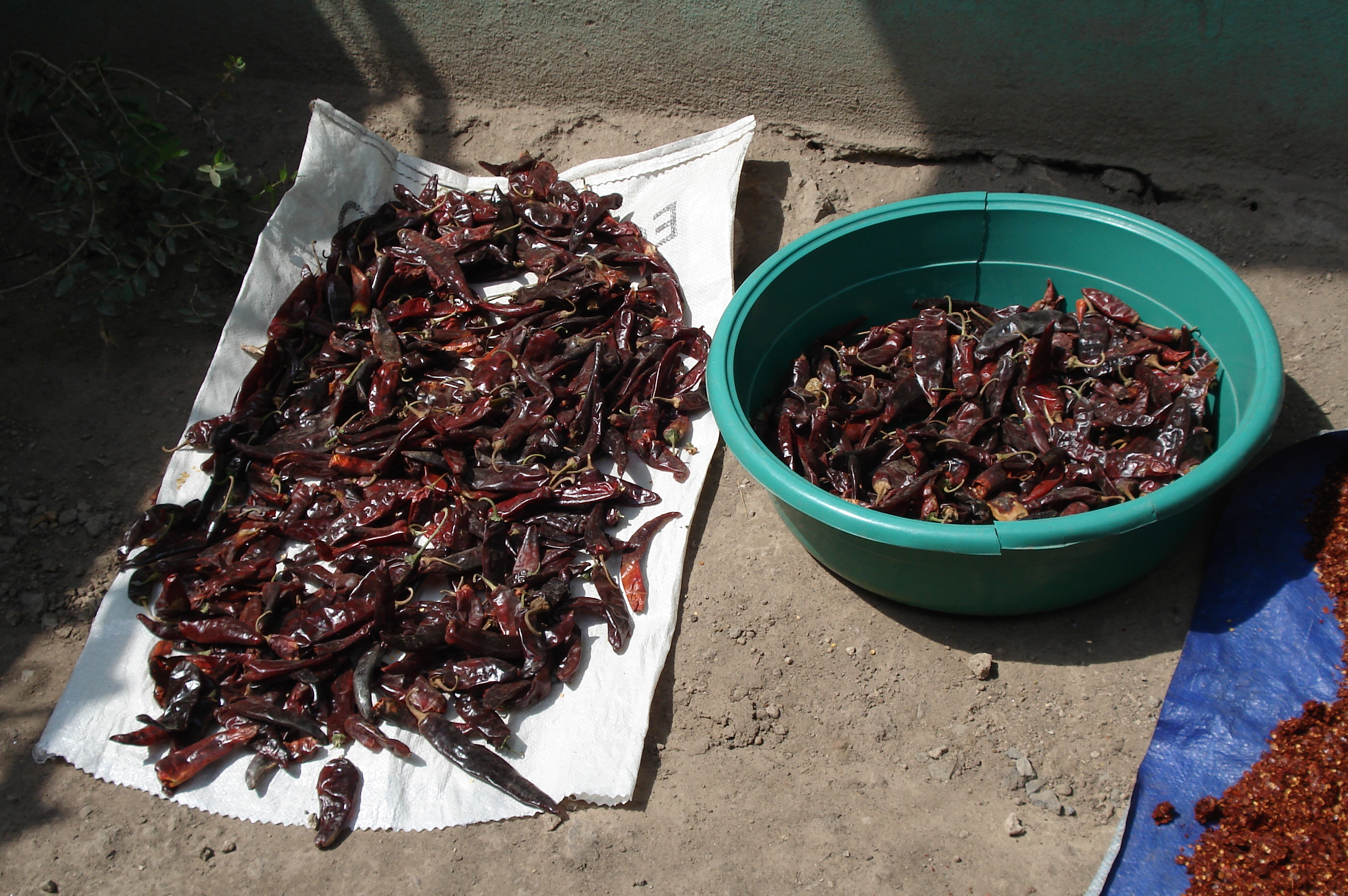 Red peppers drying, in preparation for making berbere. "Berbere" is the name of both the spice mixture and the chili pepper.